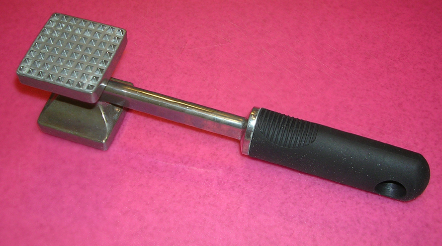 A meat pounder, also called a meat mallet, meat hammer, or meat tenderizer.